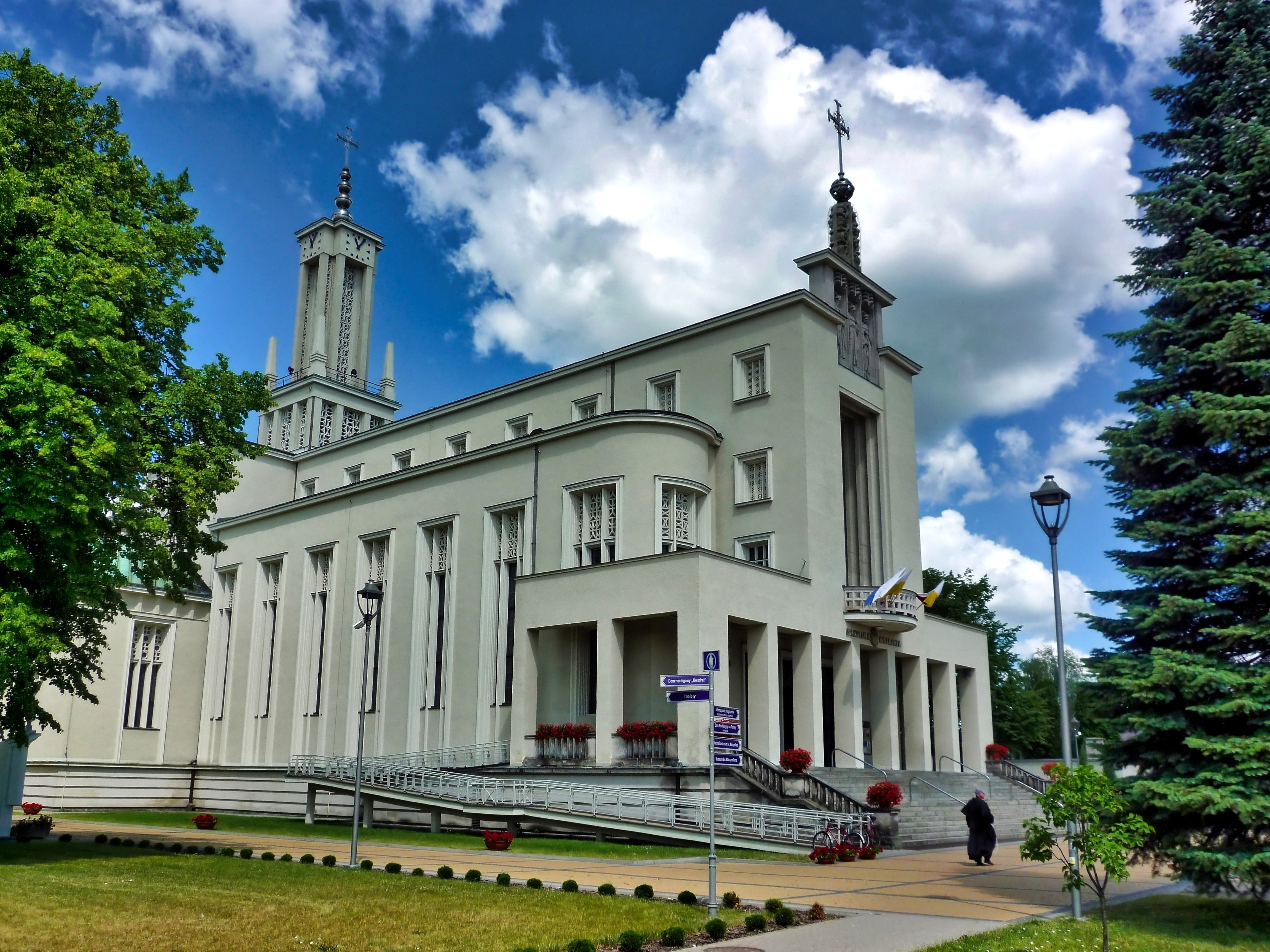 Basilica of Niepokalanów - side view